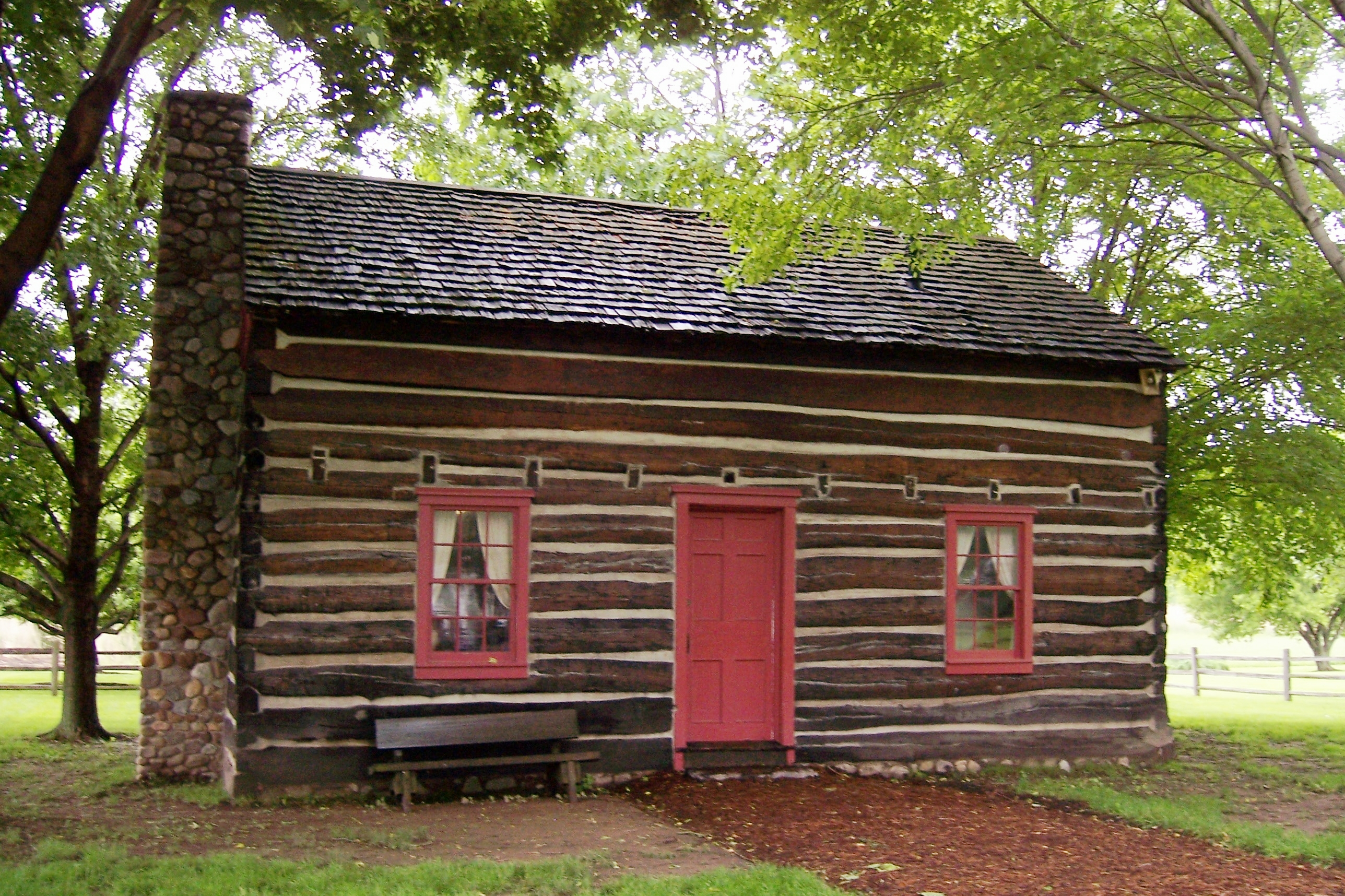 Replica of a cabin at the Peter Whitmer Farm, Fayette (Waterloo), New York, rebuilt by The Church of Jesus Christ of Latter-day Saints. In was in the original cabin in which Joseph Smith, Jr. organized the Church of Christ (renamed in 1838 the Church of Jesus Christ of Latter Day Saints) on 6 April 1830.